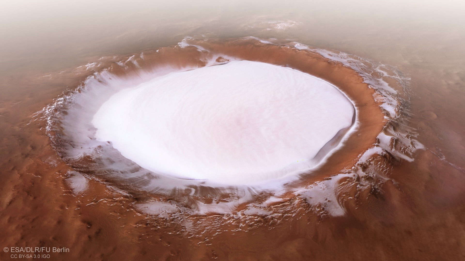 This image from ESA’s Mars Express shows Korolev crater, an 82-kilometre-across feature found in the northern lowlands of Mars. This oblique perspective view was generated using a digital terrain model and Mars Express data gathered over orbits 18042 (captured on 4 April 2018), 5726, 5692, 5654, and 1412. The crater itself is centred at 165° E, 73° N on the martian surface. The image has a resolution of roughly 21 metres per pixel. This image was created using data from the nadir and colour channels of the High Resolution Stereo Camera (HRSC). The nadir channel is aligned perpendicular to the surface of Mars, as if looking straight down at the surface.